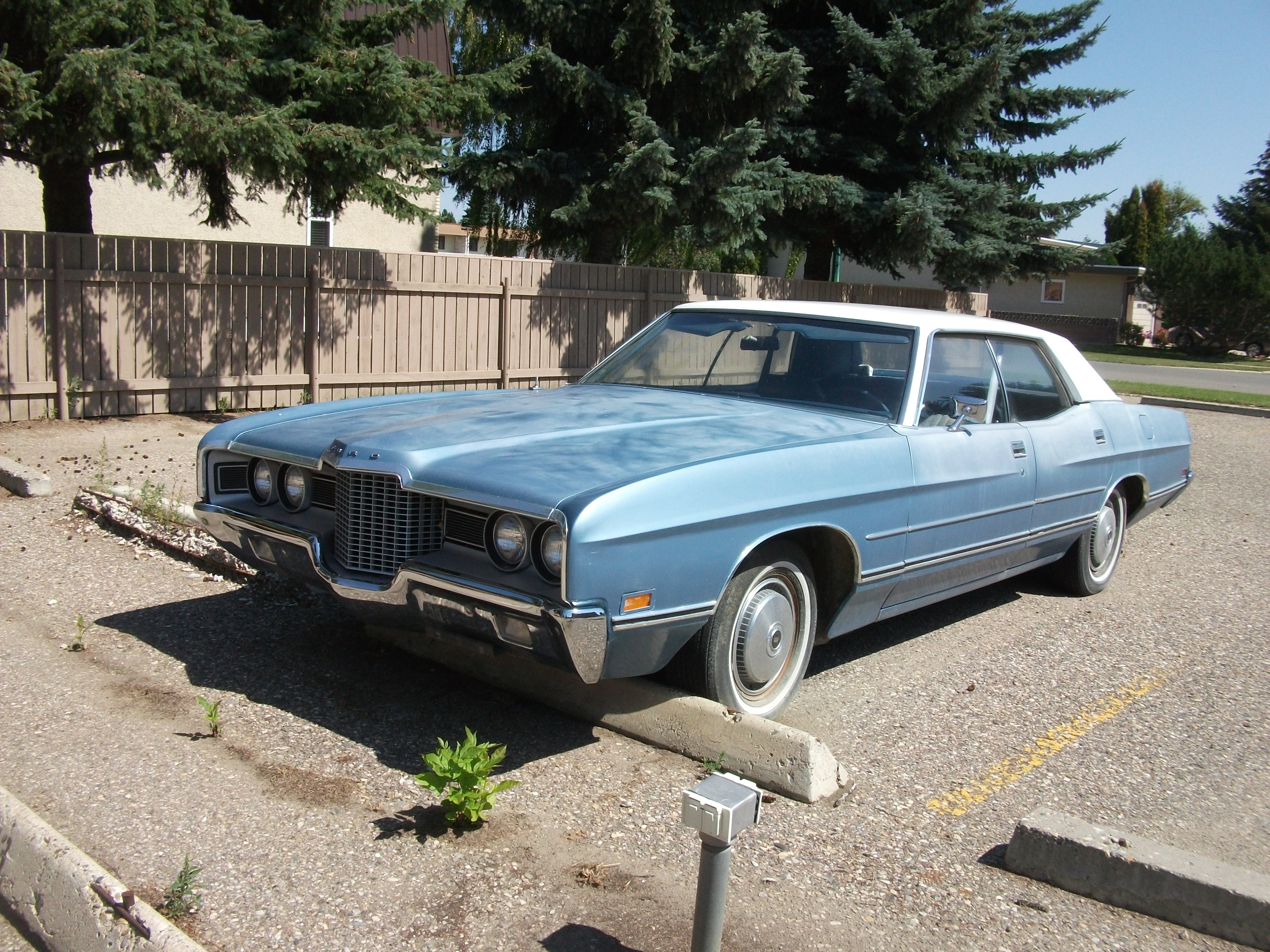 Big old 70s boat - Ford Galaxie 500. You don't see too many around anymore.